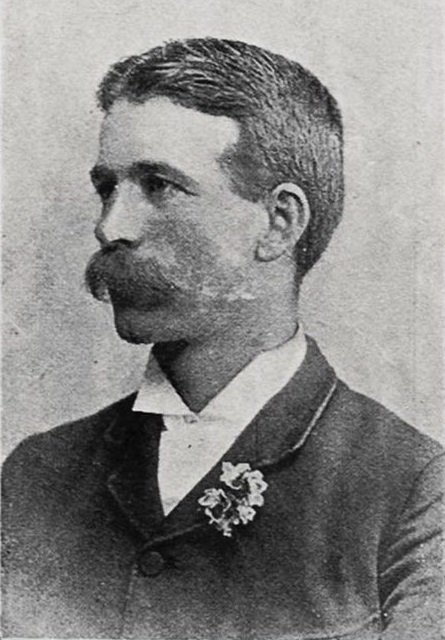 Portrait of Jackson Palmer, Member of the House of Representatives for Ohinemuri, Bay of Plenty region.